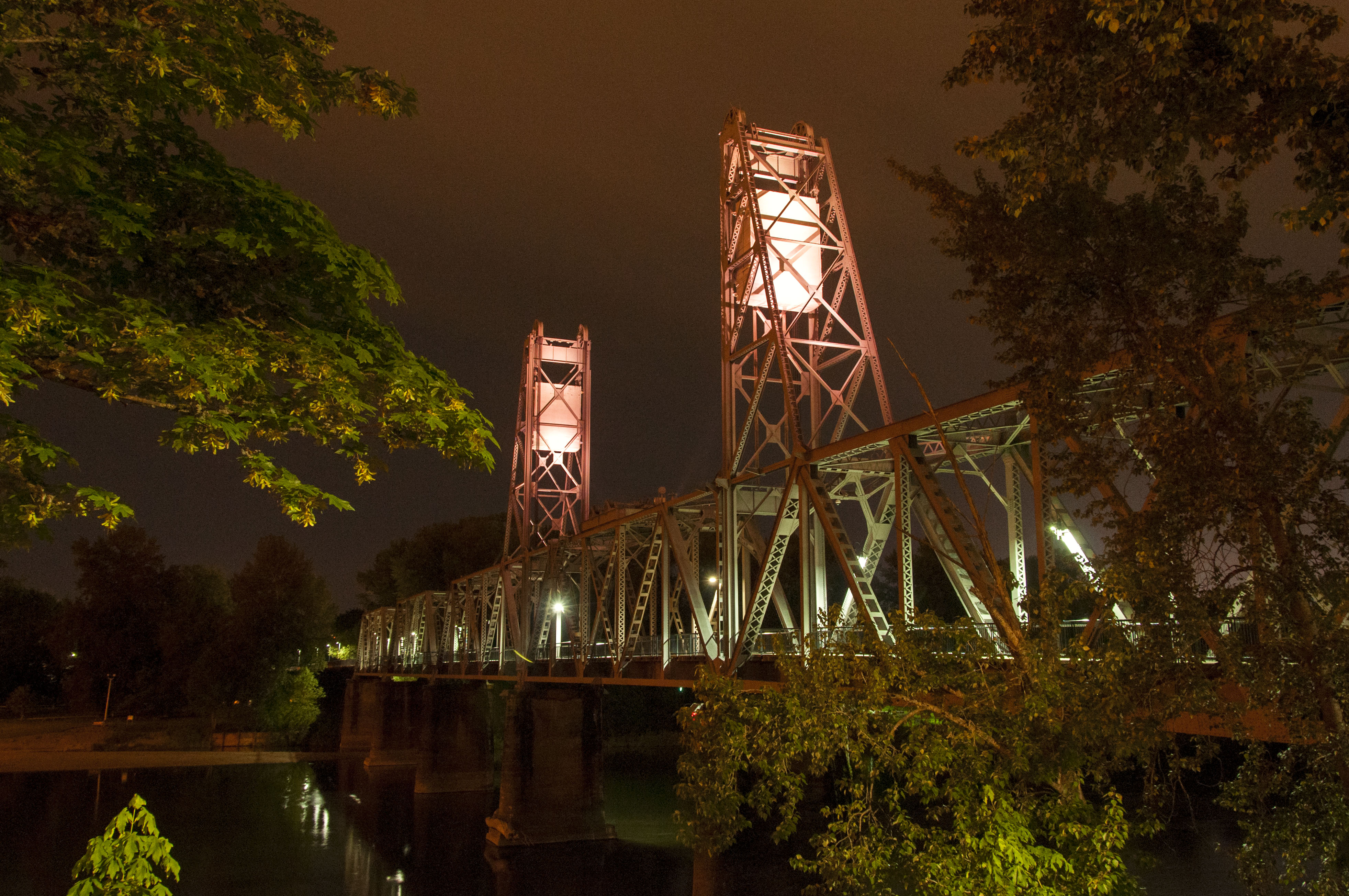 The Salem Pedestrian Bridge at Union Street goes orange for work zone safety.